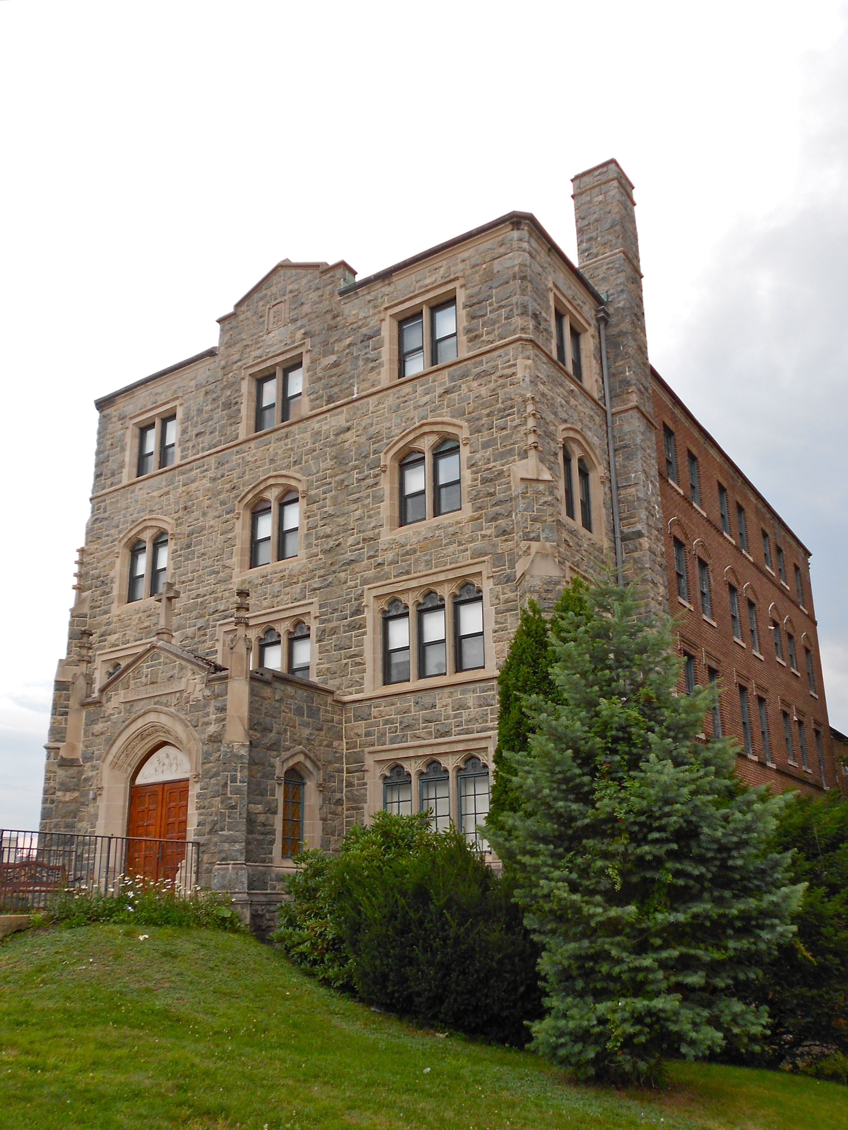 Convent at St. Gabriel's Catholic Parish Complex, on the NRHP since August 22, 2002, at 122–142 South Wyoming Street, Hazleton, Luzerne County, Pennsylvania.